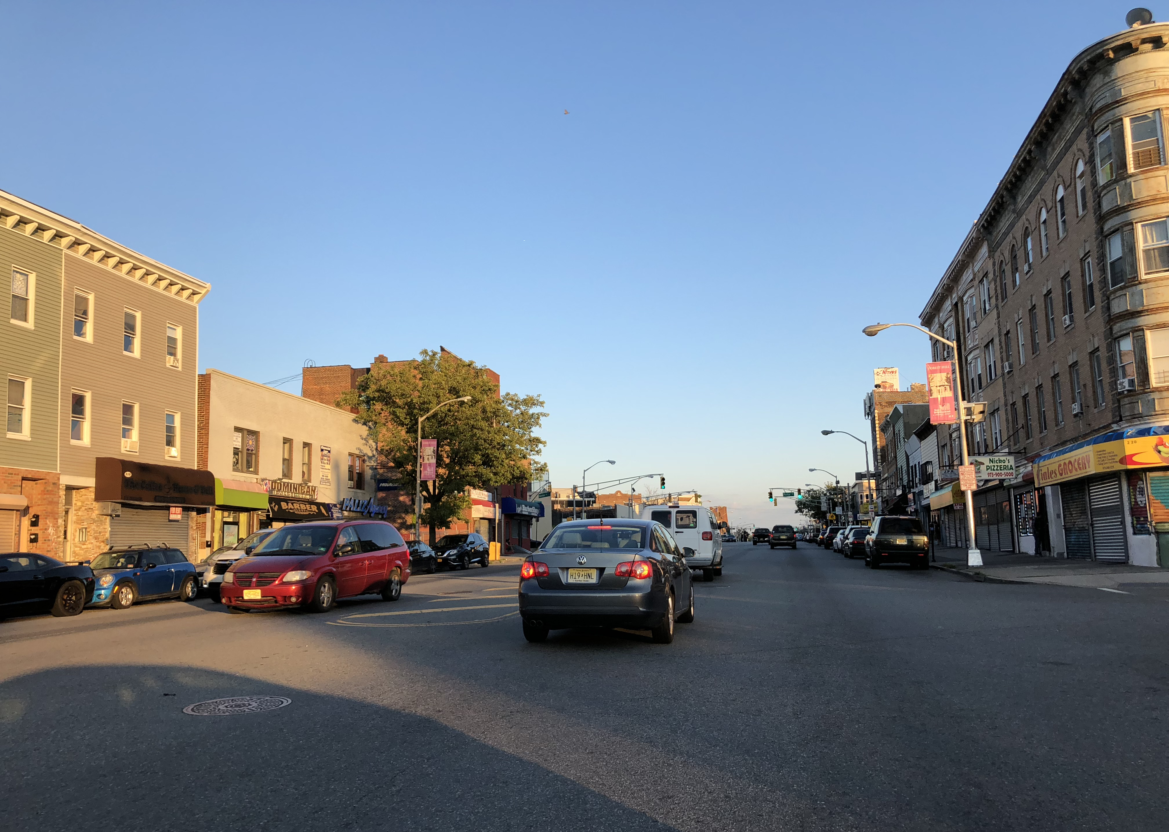 View east along Essex County Route 506 Spur (Bloomfield Avenue) at Highland Avenue in Newark, Essex County, New Jersey